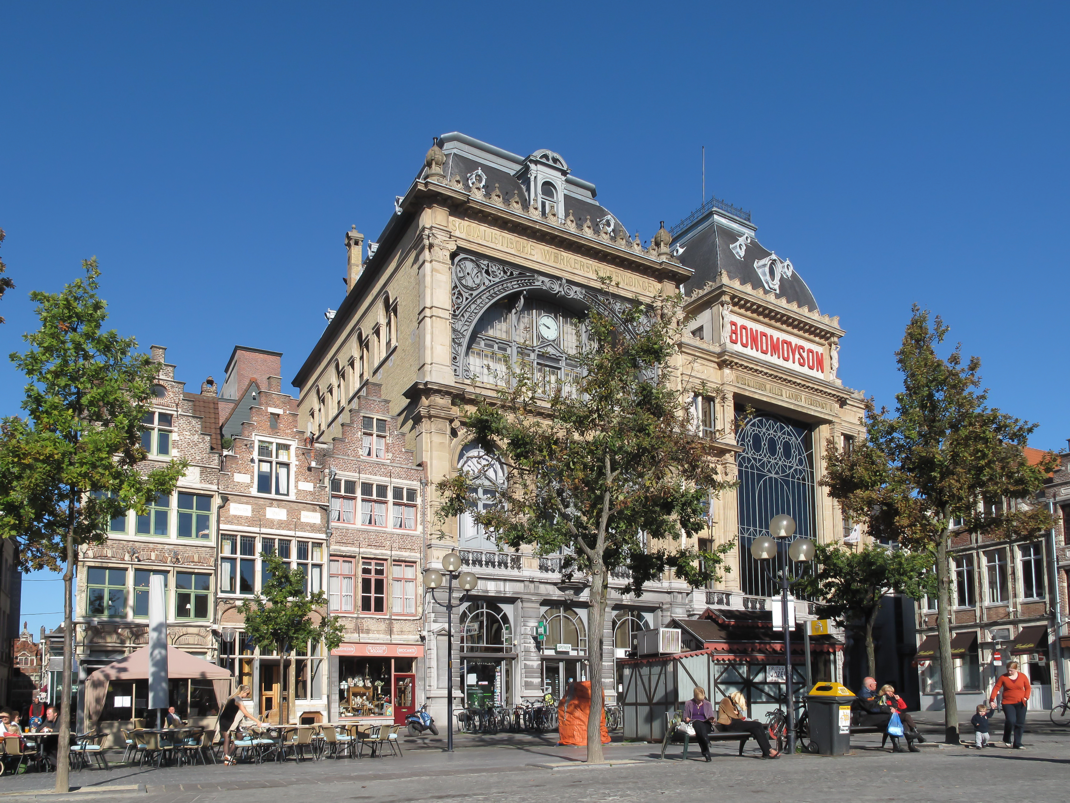 Ghent, monumental building Bond Moyson on Vrijdagmarkt